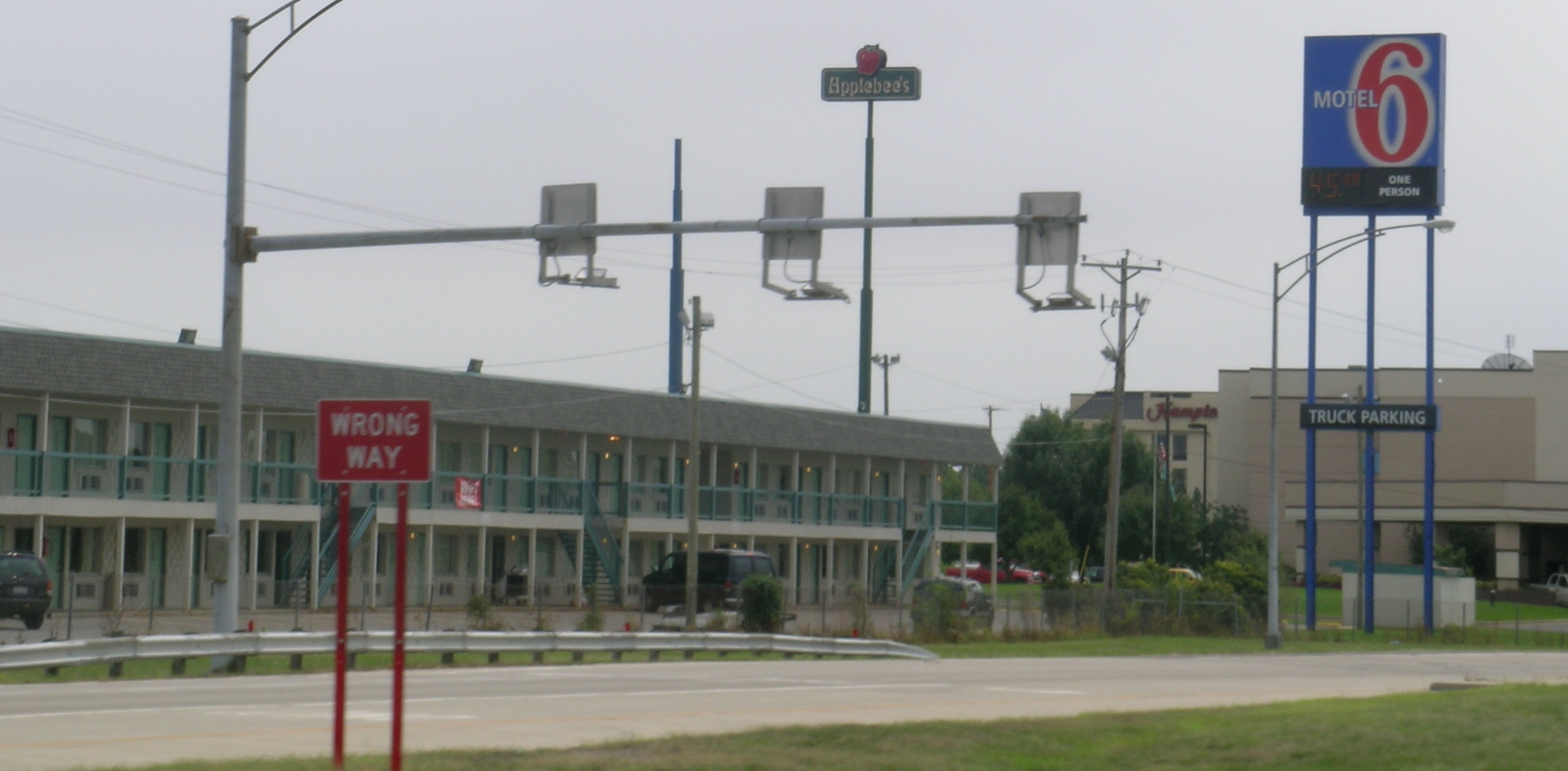 Motel 6 in Lima, OH with Applebee's sign in the background.